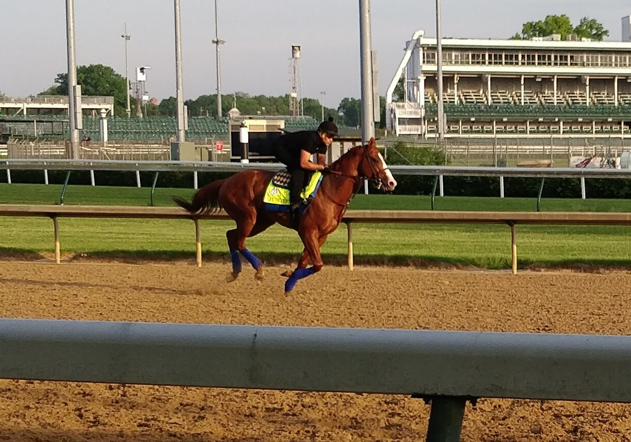 Justify workout may 15 2018 pre-Preakness Feel free to use this photo however you like, just attribute . Thanks!